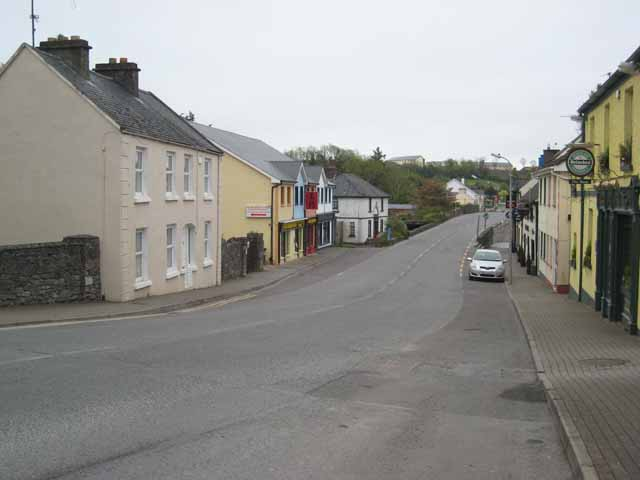 Main Street, Leitrim village Leitrim is but a village, but it is the settlement which gives its name to a whole County. An important node in the Irish waterways network where the Shannon-Erne Waterway joins the River Shannon.